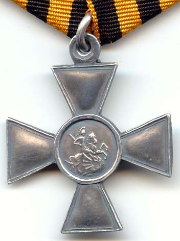 Cross of St. George 3st